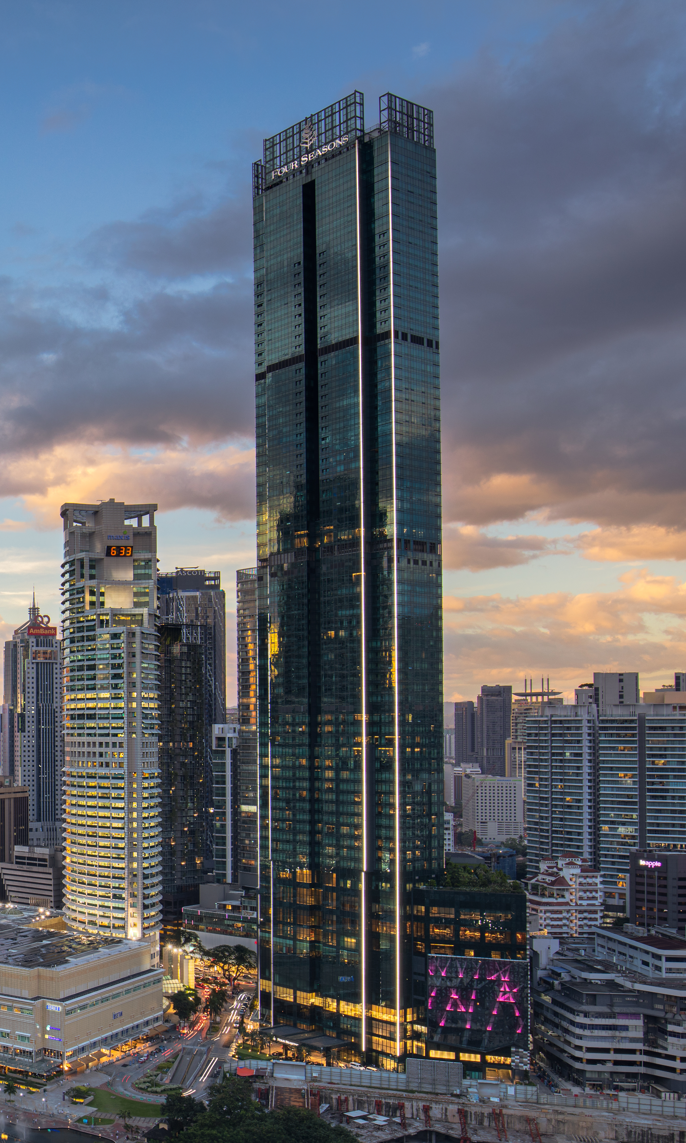 Petronas Towers in December 2019